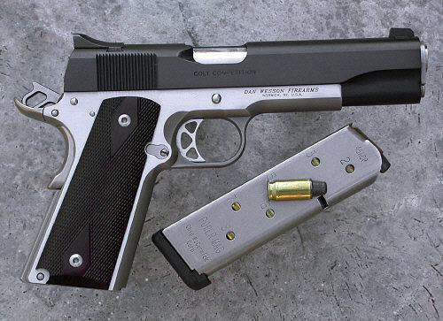 Dan Wesson 1911 Model DW Patriot (PT E 45)